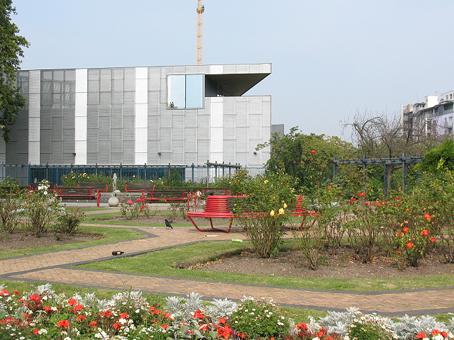 Brookmill Park: rose garden The building in the background is the Stephen Lawrence Centre 691832.